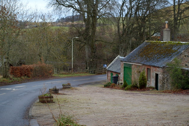 View of Kingoldrum from the west - rear of listed building, Kirk manse